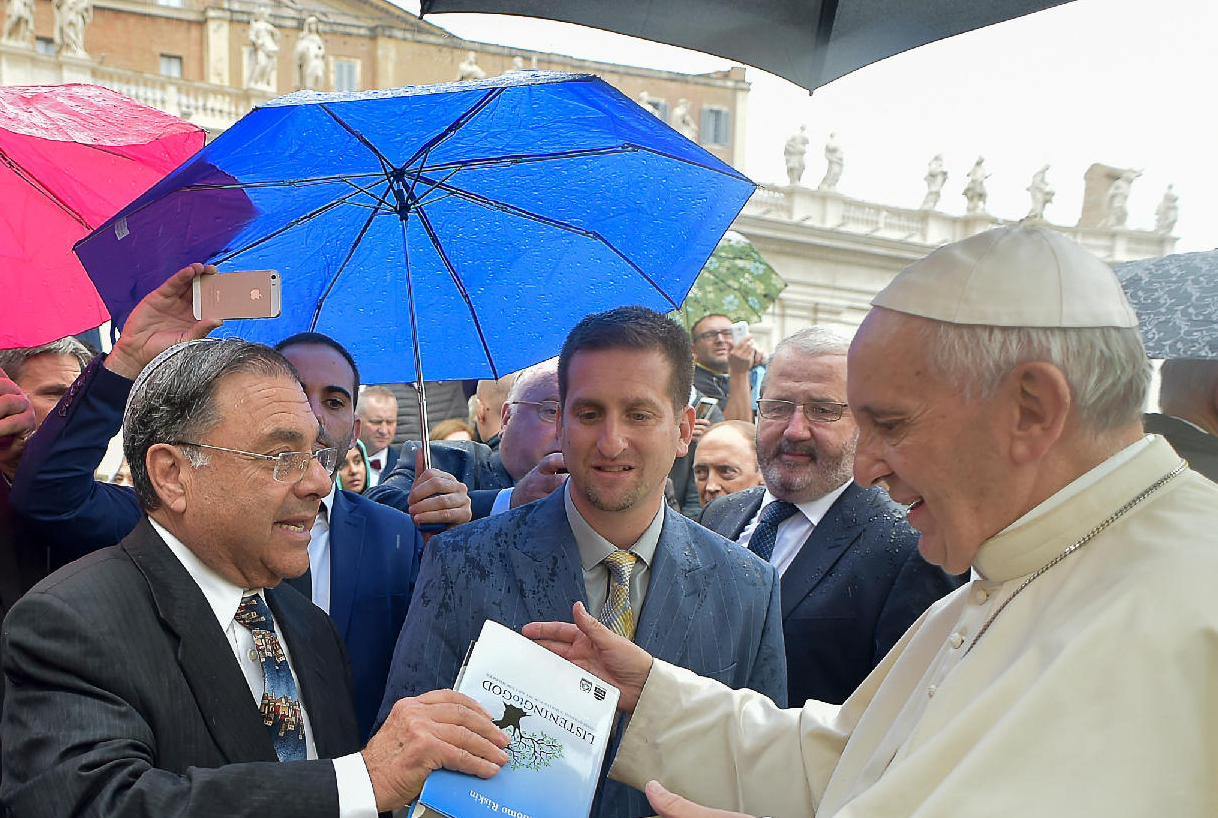 CJCUC Founder, Rabbi Shlomo Riskin, and CJCUC Executive Director, David Nekrutman with Pope Francis in Rome, Italy, October 2016.